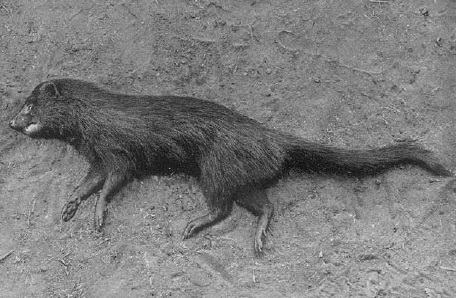 Atilax paludinosus